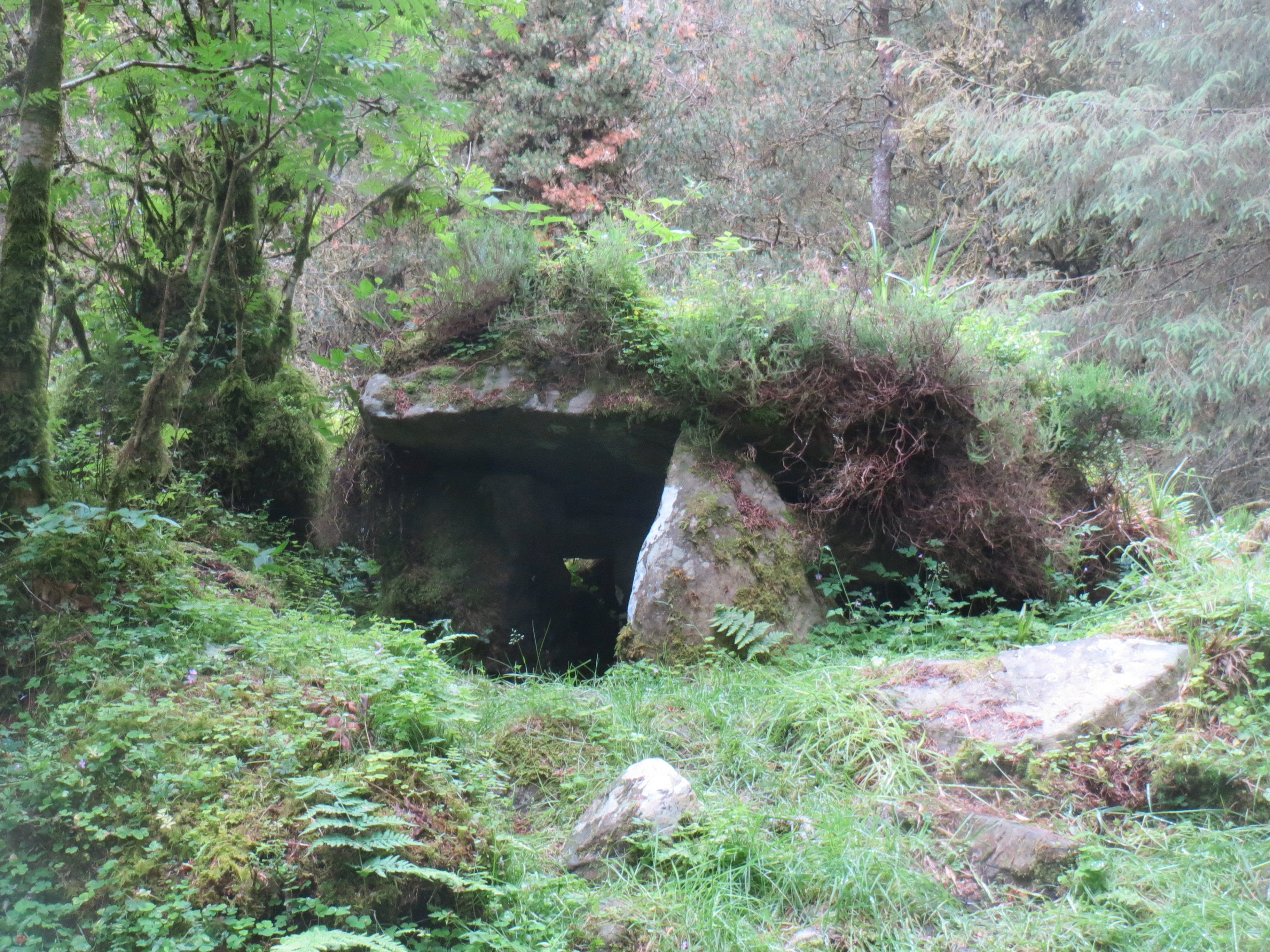 Portal Tomb Burren (Cavan)